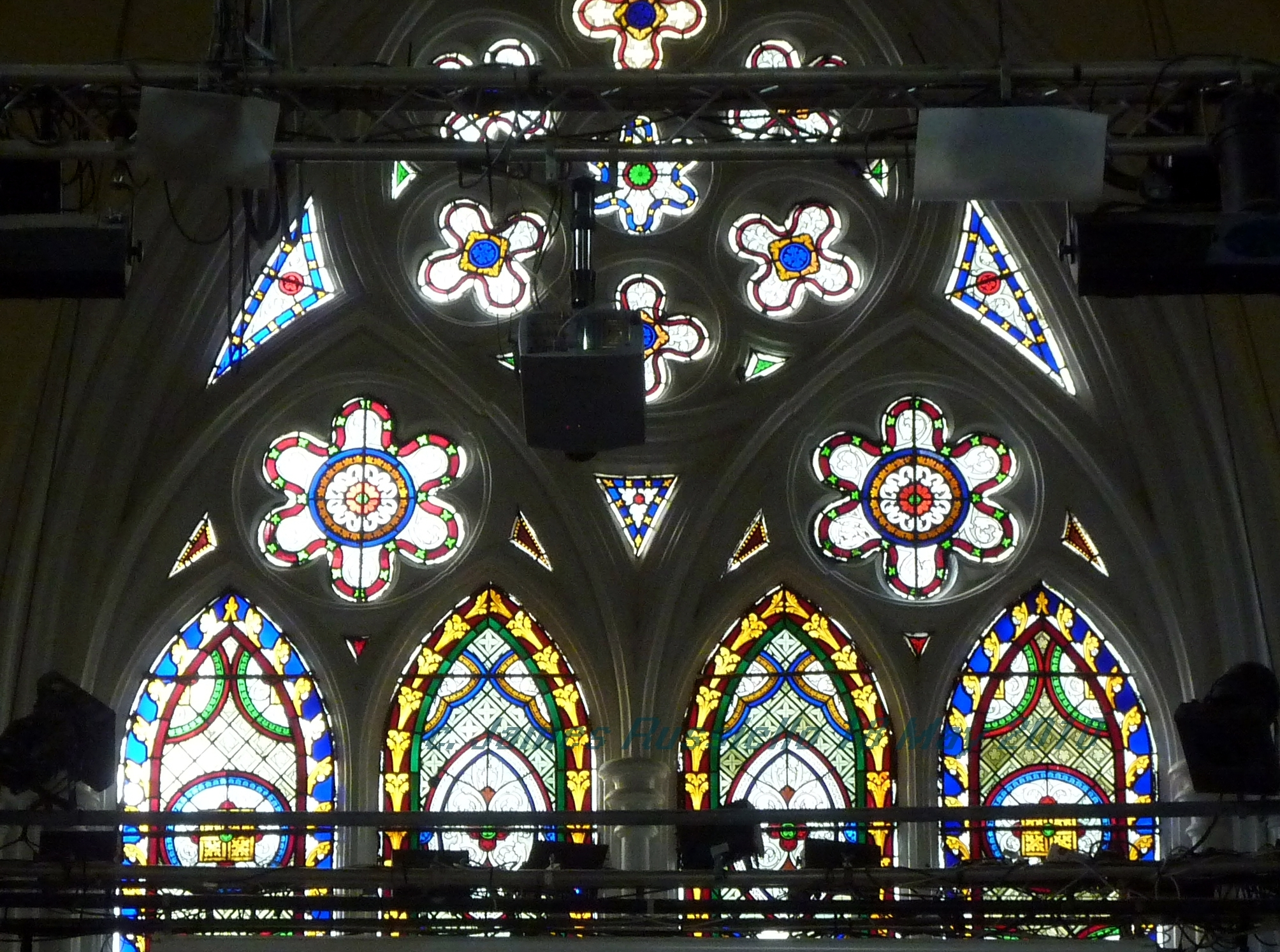 Stained glass window by Ward & Co. of London in Kensington Temple, the former Horbury Congregationalist Chapel, Notting Hill Category:British stained glass artists and manufacturersen:Category:Defunct glassmaking companies